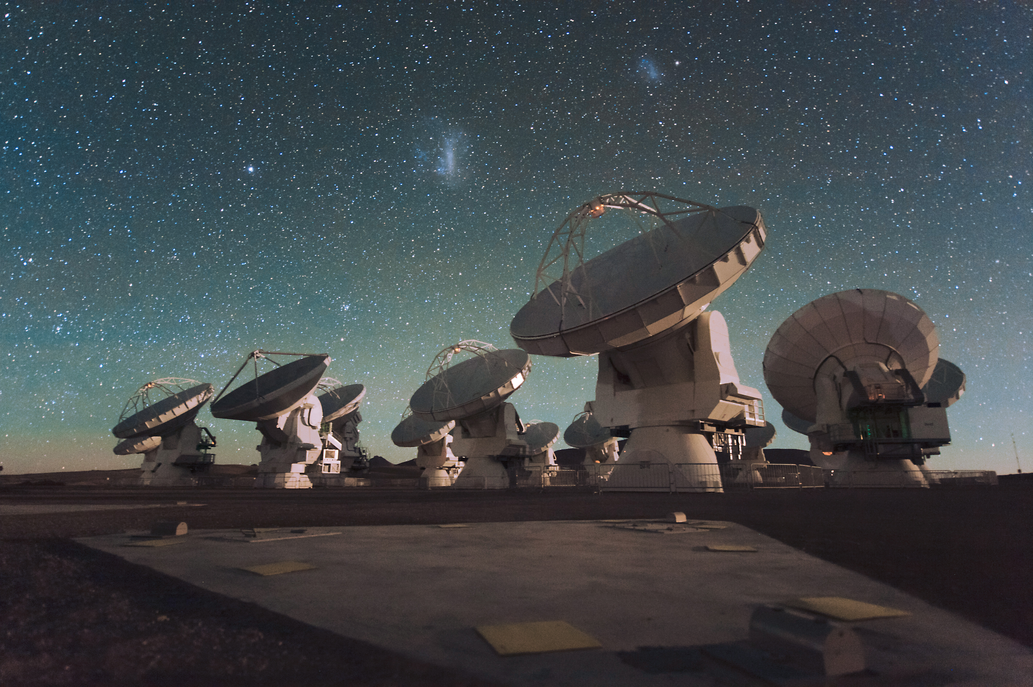 Antennas of the Atacama Large Millimeter/submillimeter Array (ALMA), on the Chajnantor Plateau in the Chilean Andes. The Large and Small Magellanic Clouds, two companion galaxies to our own Milky Way galaxy, can be seen as bright smudges in the night sky, in the centre of the photograph.